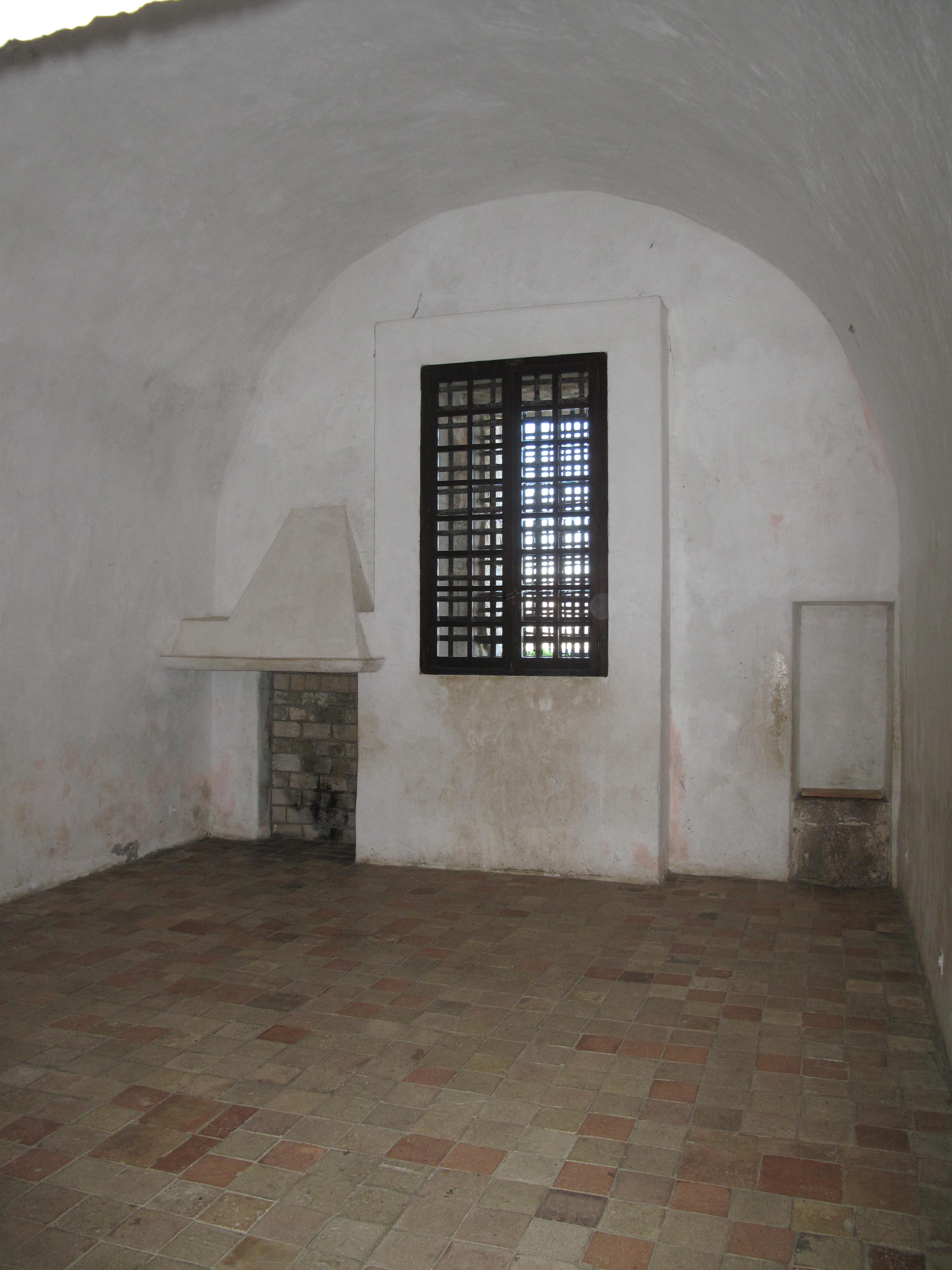 Prison cell occupied by the man named "Iron Mask" in the fort-Royal of the Sainte-Marguerite island (Alpes-Maritimes, France).